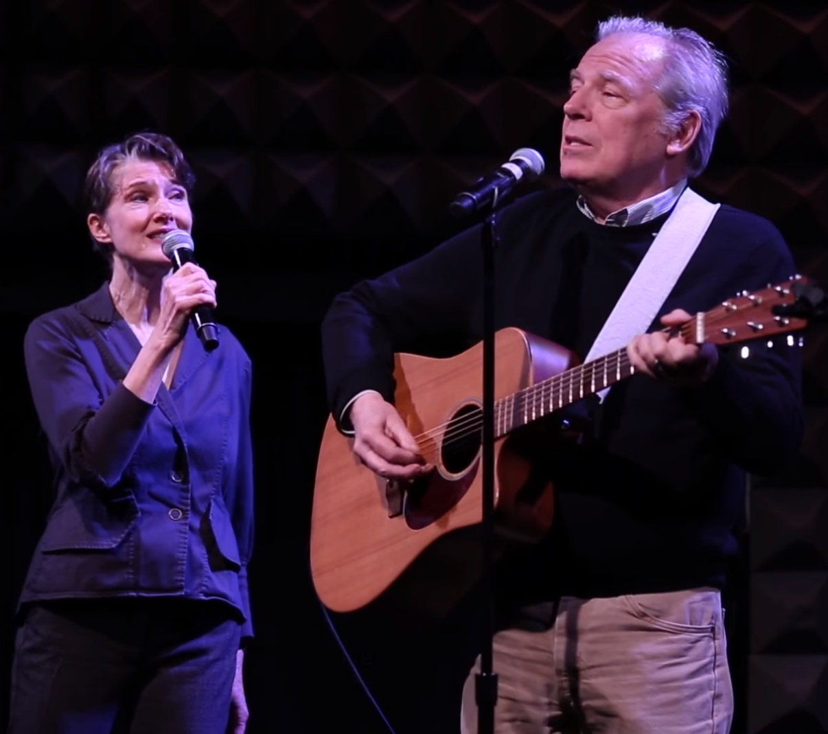 Nominated for an Academy Award for Best Original Song in a Motion Picture, "Kiss at the End of the Rainbow" was written by Annette O'Toole and Michael McKean for Christopher Guest's film "A Mighty Wind." Best known for her role in Smallville, actor Annette O'Toole has been acting on stage and screen since she was 15 and is currently starring at The Public Theater in Southern Comfort. From Lenny on "Laverne and Shirley," to David St Hubbins on "This Is Spinal Tap" to Chuck McGill on FX's "Better Call Saul," Michael McKean has been creating iconic characters for 40 years. Together, this husband and wife team performed their award winning song on Employee of the Month hosted by Catie Lazarus. Michael McKean received the coveted Employee of the Month Award and rewarded the crowd with this love ballad. To hear our full conversation, listen to Employee of the Month podcast on SoundCloud or iTunes. New interviews each week. Connect with EOTM: Website: Facebook: Twitter: Recorded February 2016 at Joe's Pub | Video by Adam Abel, Meredith Kaufman Younger, and Dan Zimmer